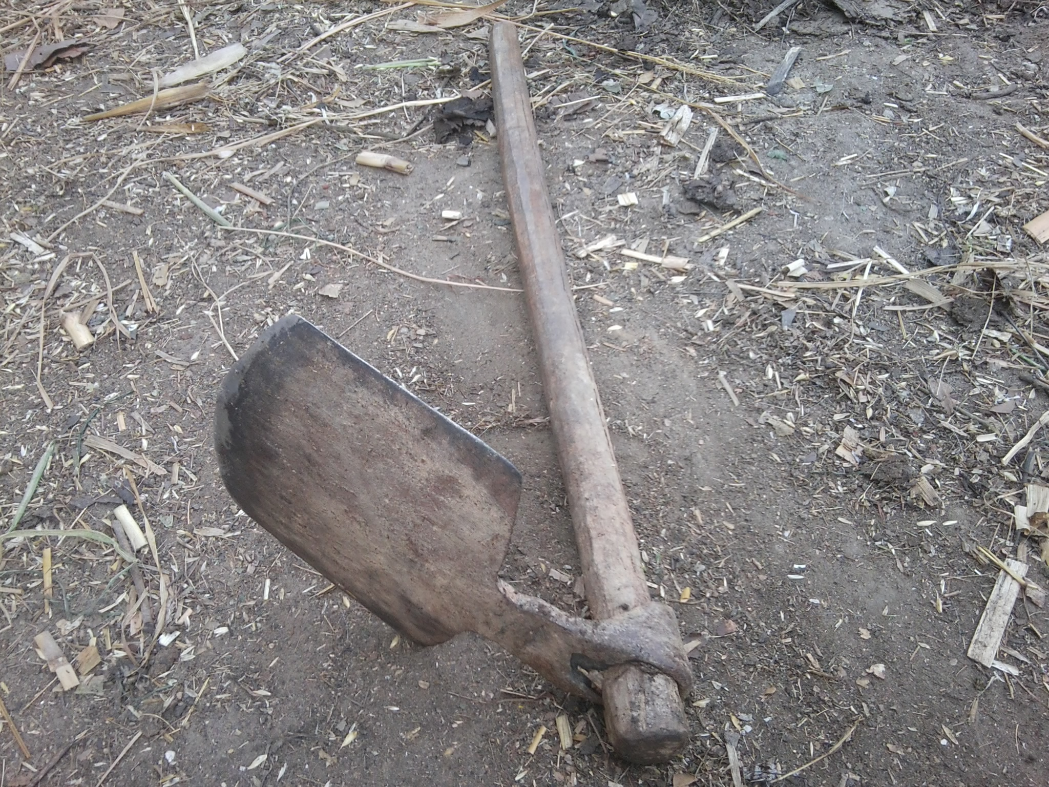 An agricultural tool used in Nepal.